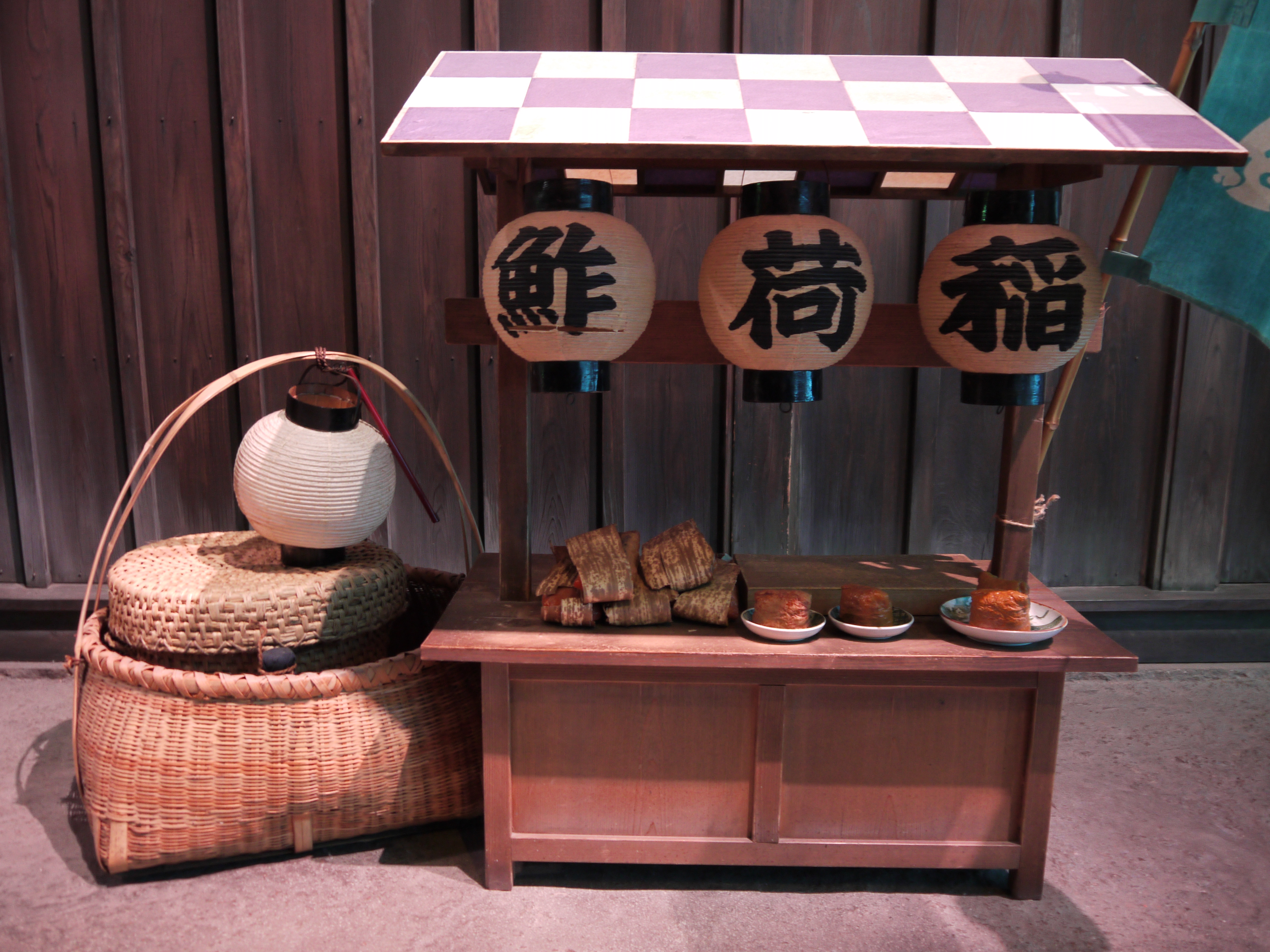 =Description=